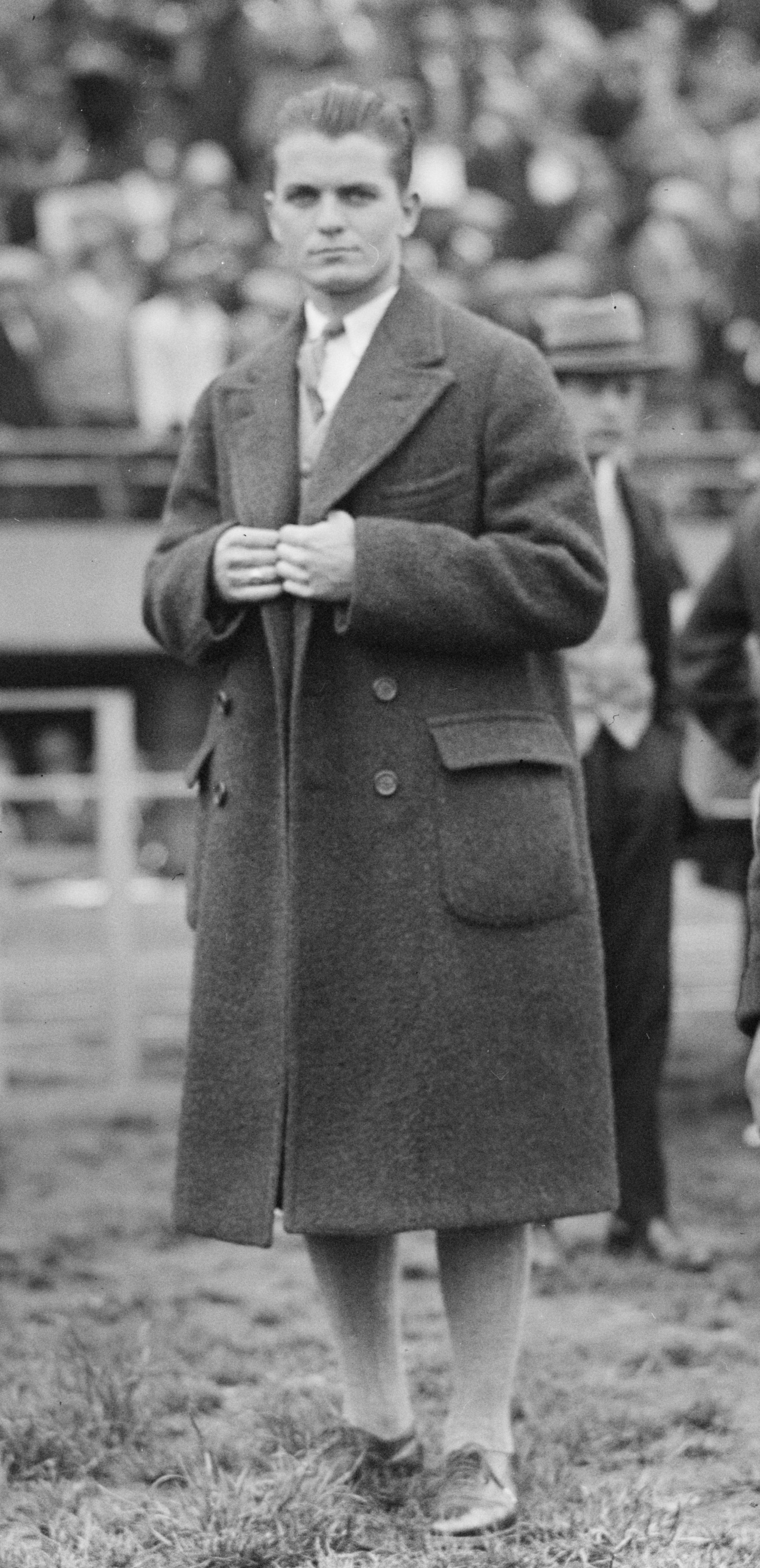 Frank Hussey (1905 - 1974), an American athlete